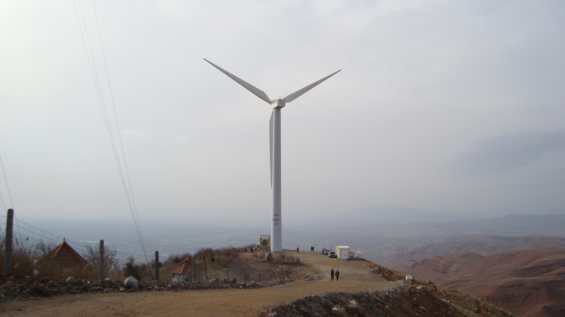 tabriz wind turbin